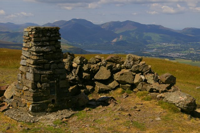 Trig Point at Clough Head.